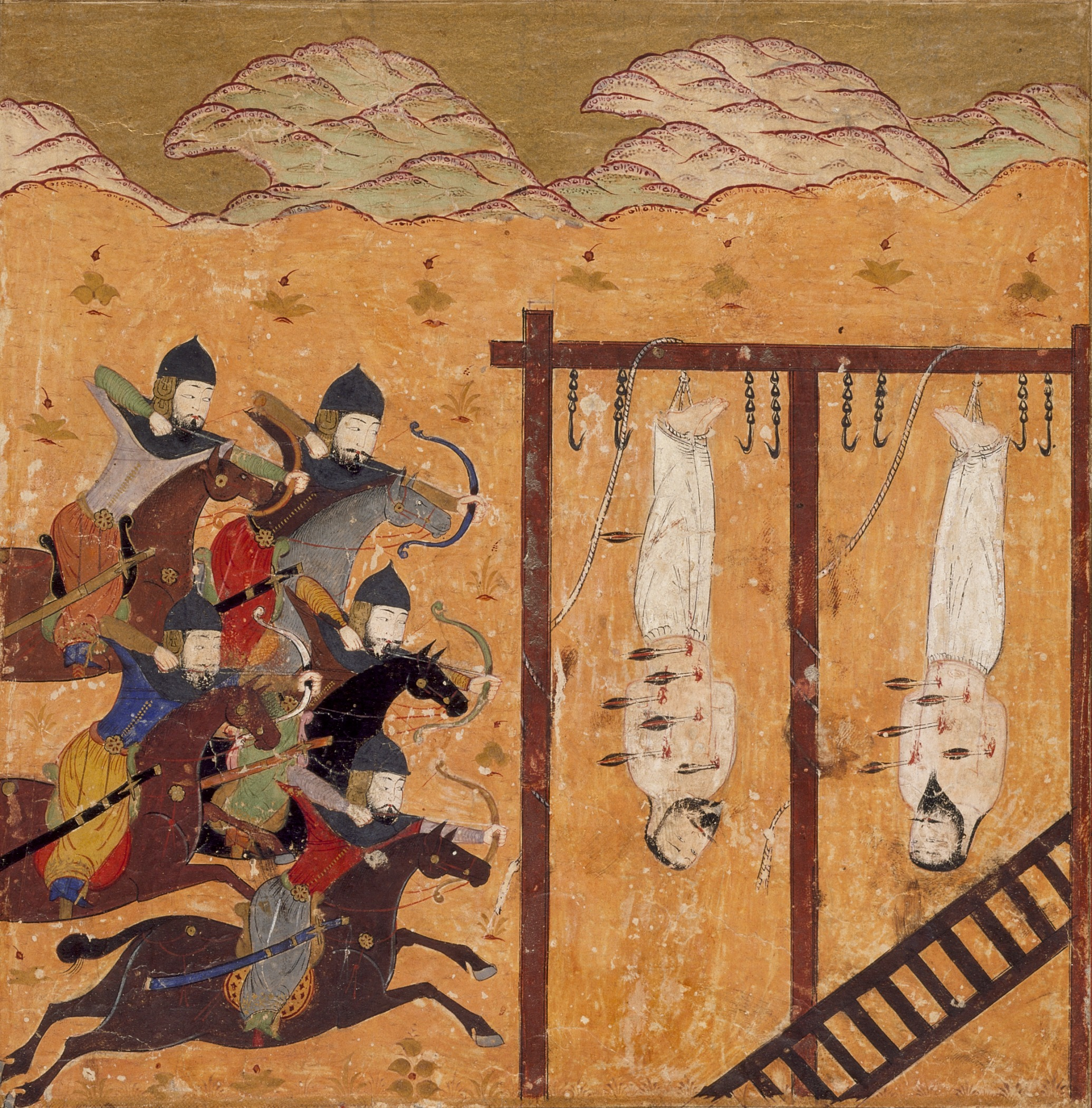 India (?), circa 1475 Drawings; watercolors Opaque watercolor and gold on paper Purchased with funds provided by Harry and Yvonne Lenart (M.85.189) South and Southeast Asian Art